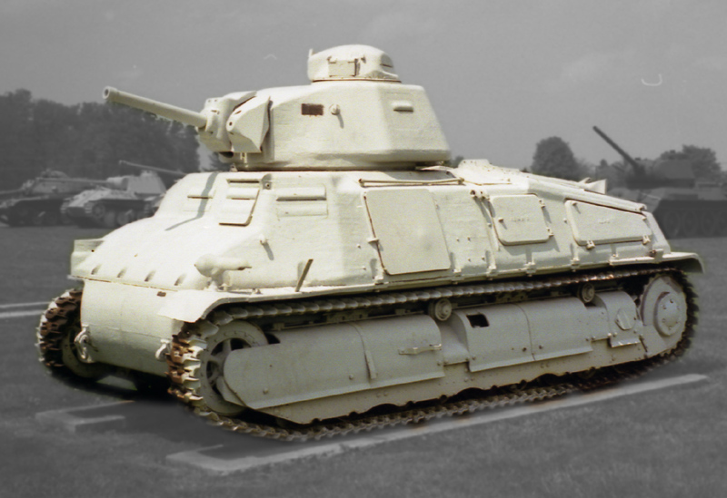 Renault R35 on display at the US Army Ordnance Museum at Aberdeen. The picture taken in 2000. The tank is not on display anymore.